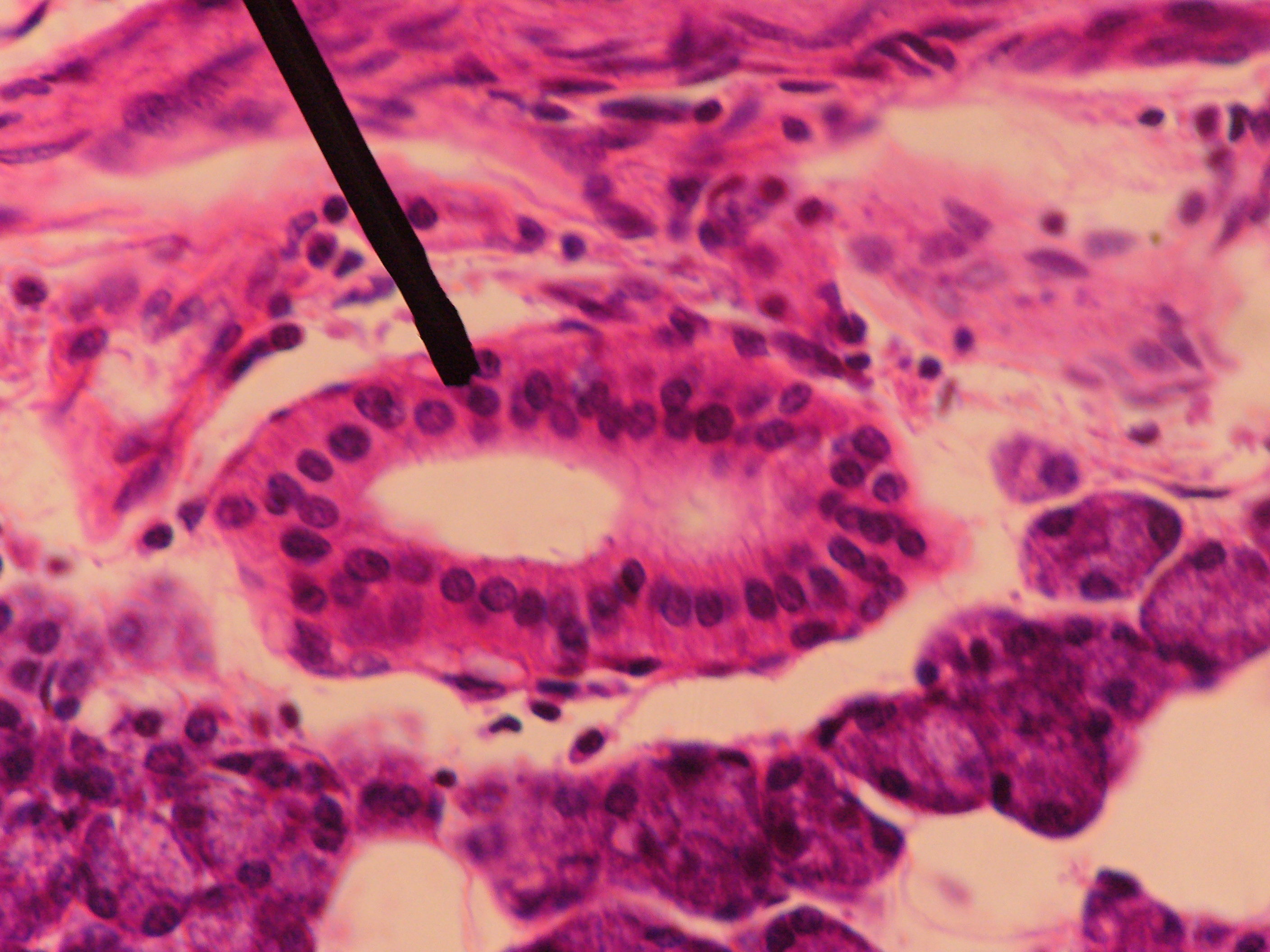 own picture. Digital camera shot of human Parotid striated duct through a microscope.